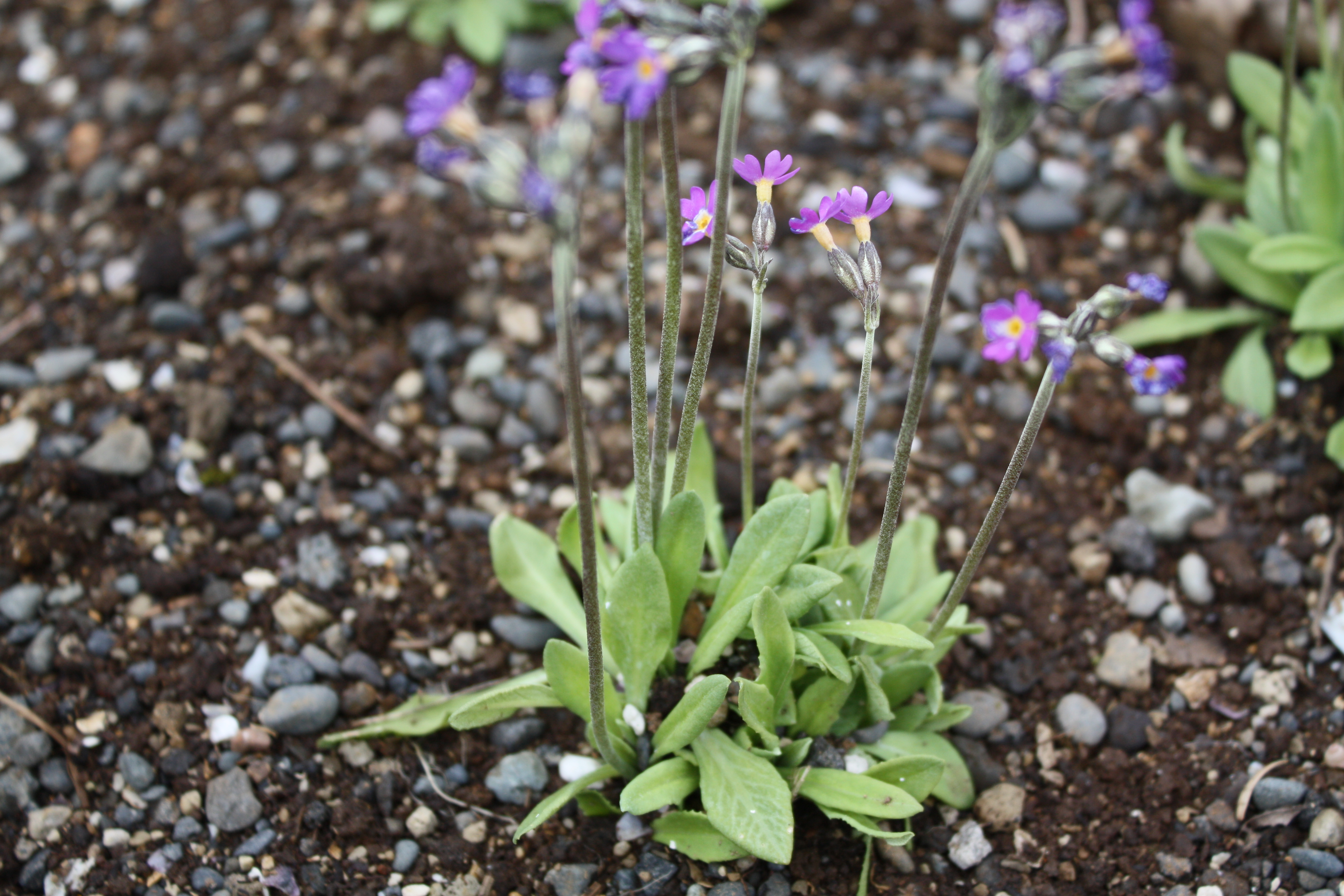 Primula scandinavica in Grasagarður Reykjavíkur the Reykjavik Botanic Garden